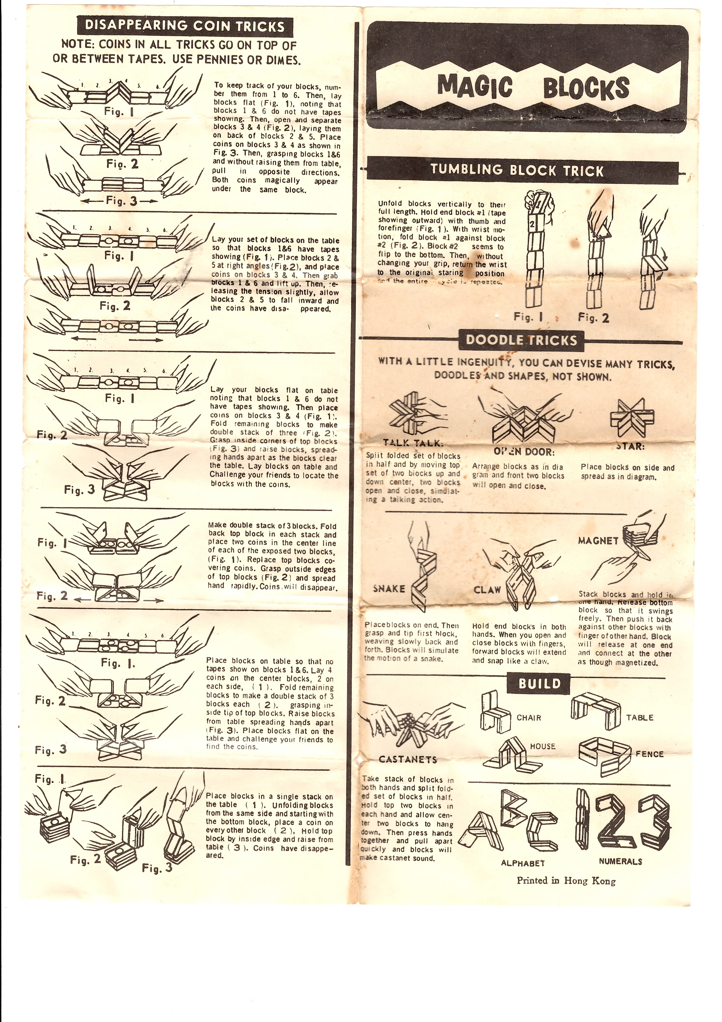 Instructions for a kids' toy from the early 1950's (?) based upon the jacob's ladder